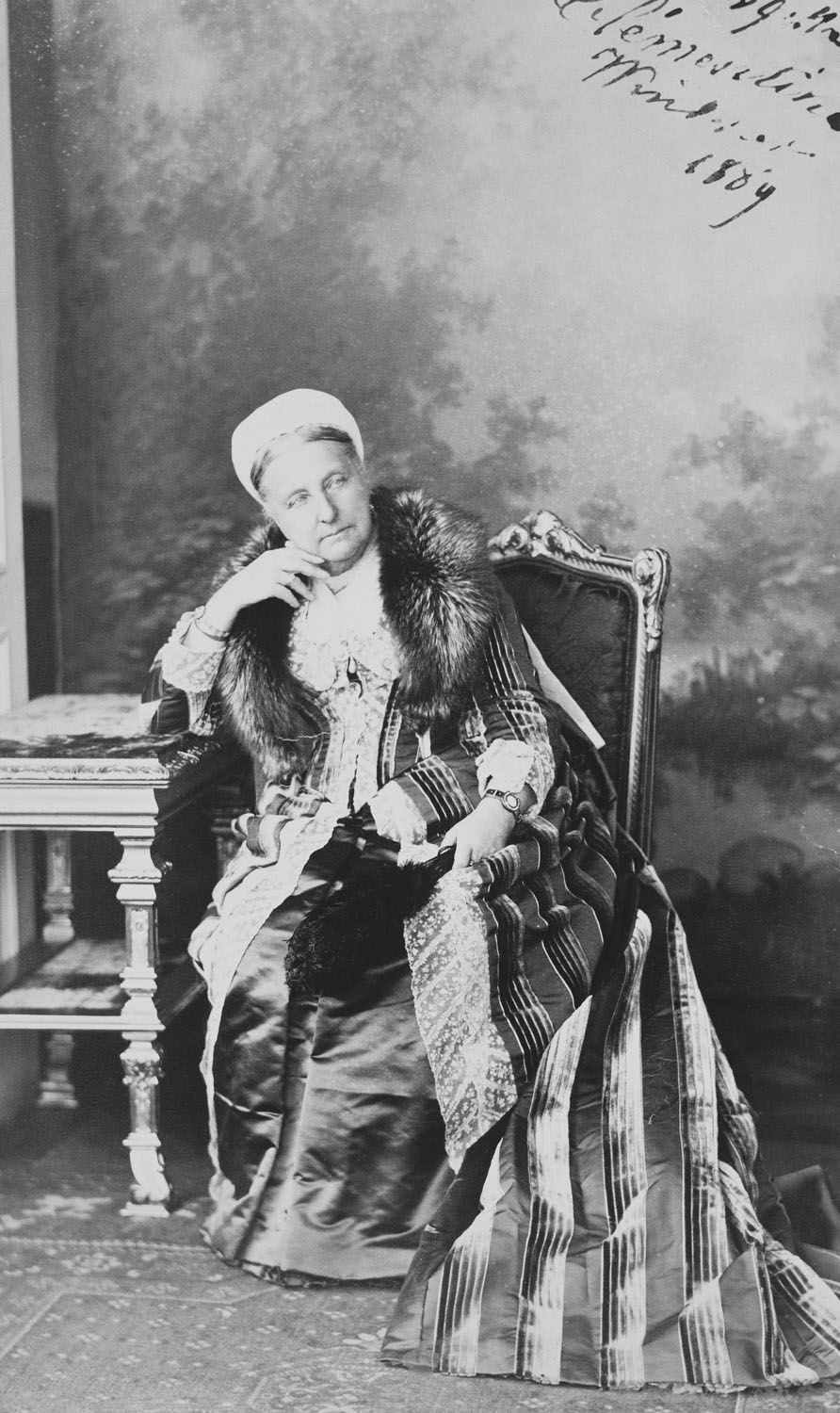 Princess Clémentine of Orléans (1818-1907).